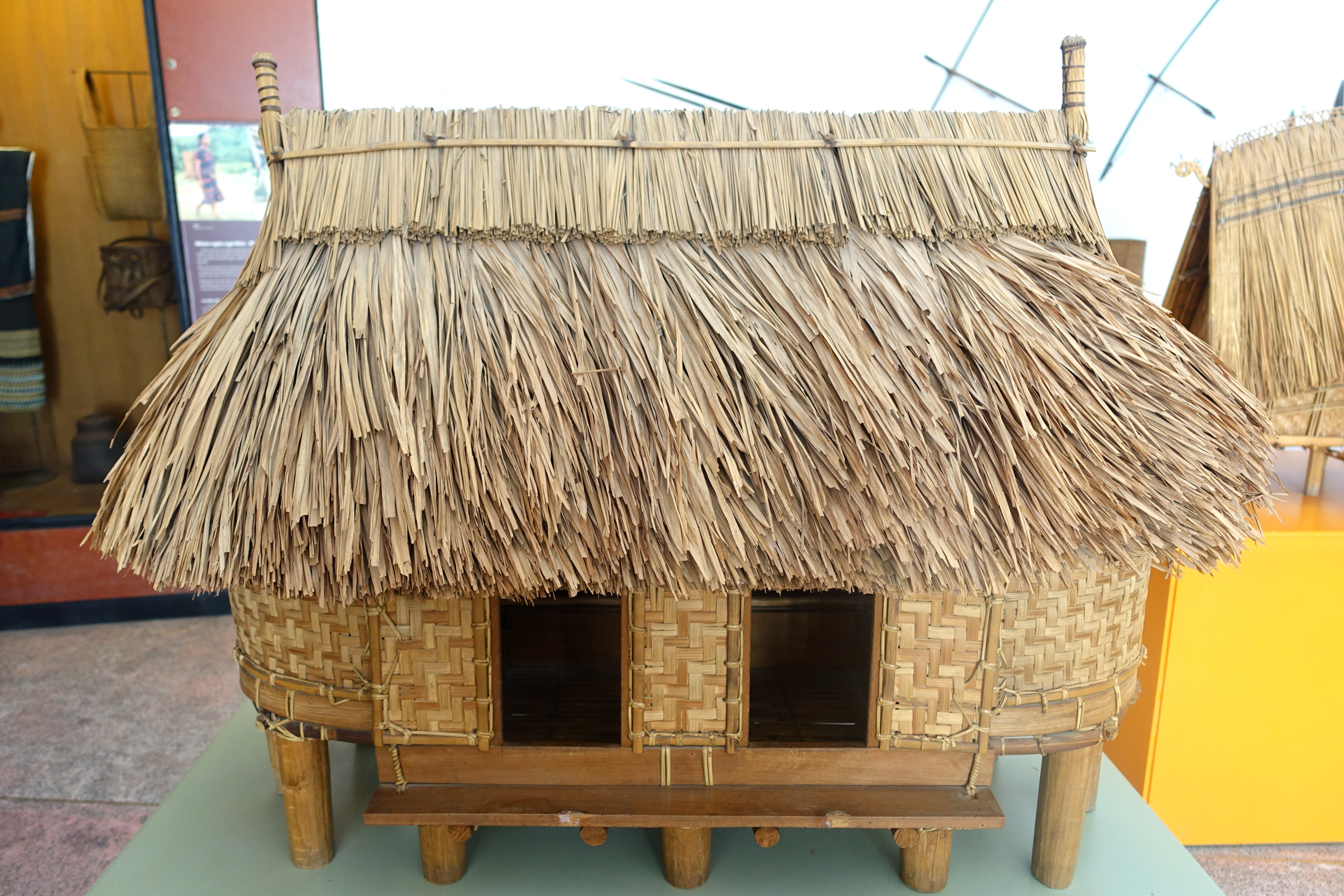 Exhibit in the Vietnam Museum of Ethnology - Hanoi, Vietnam.